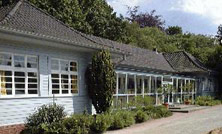 Schulbiologiezentrum Hannover, Old schoolhouse